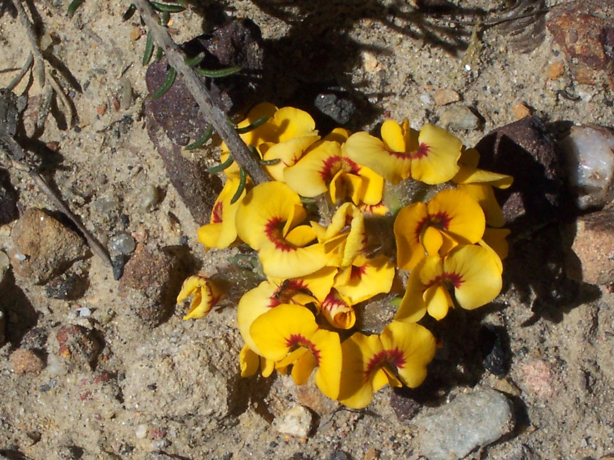 Pea Flower Braidwood - Nowra Road, NSW, Australia. Possibly Mirbelia baueri